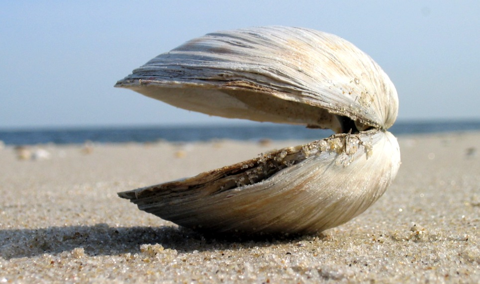 Clams on Sandy Hook beaches